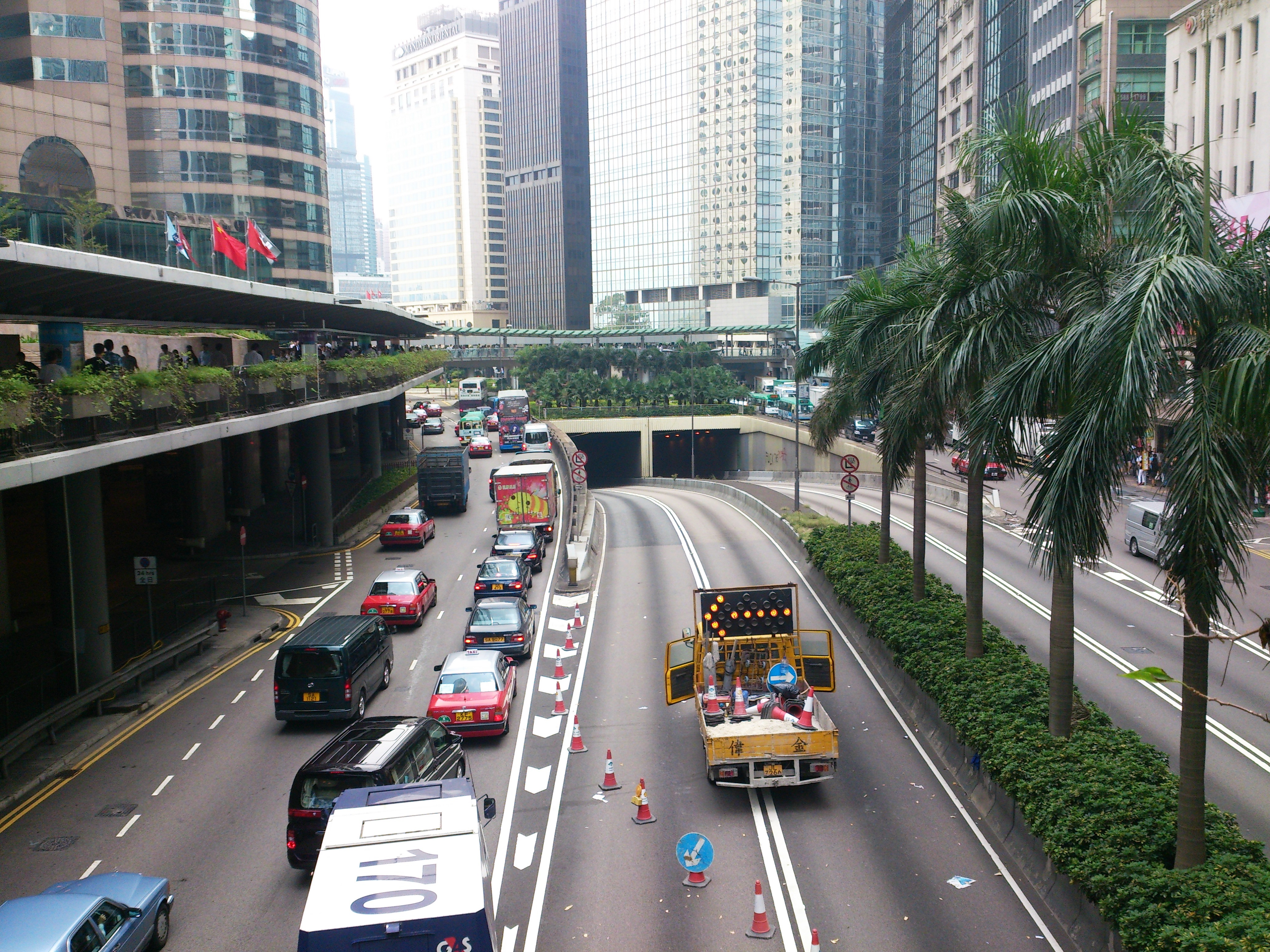 中文（香港）: Diverted traffic on Connaught Road Central near West exit of Pedder Street Tunnel on 2014-09-30